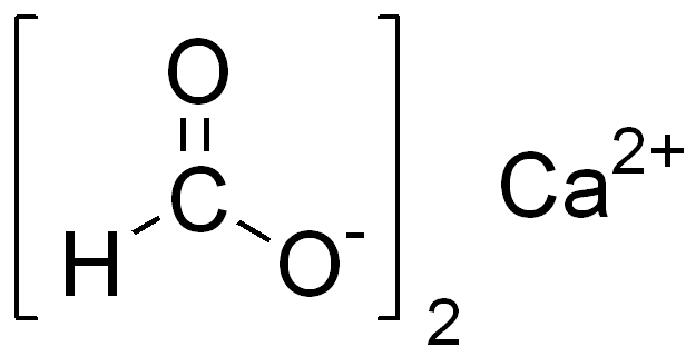 chemical structure of calcium formate